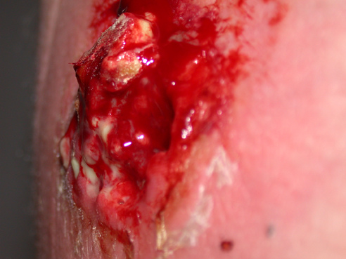 A ruptured MRSA cyst.